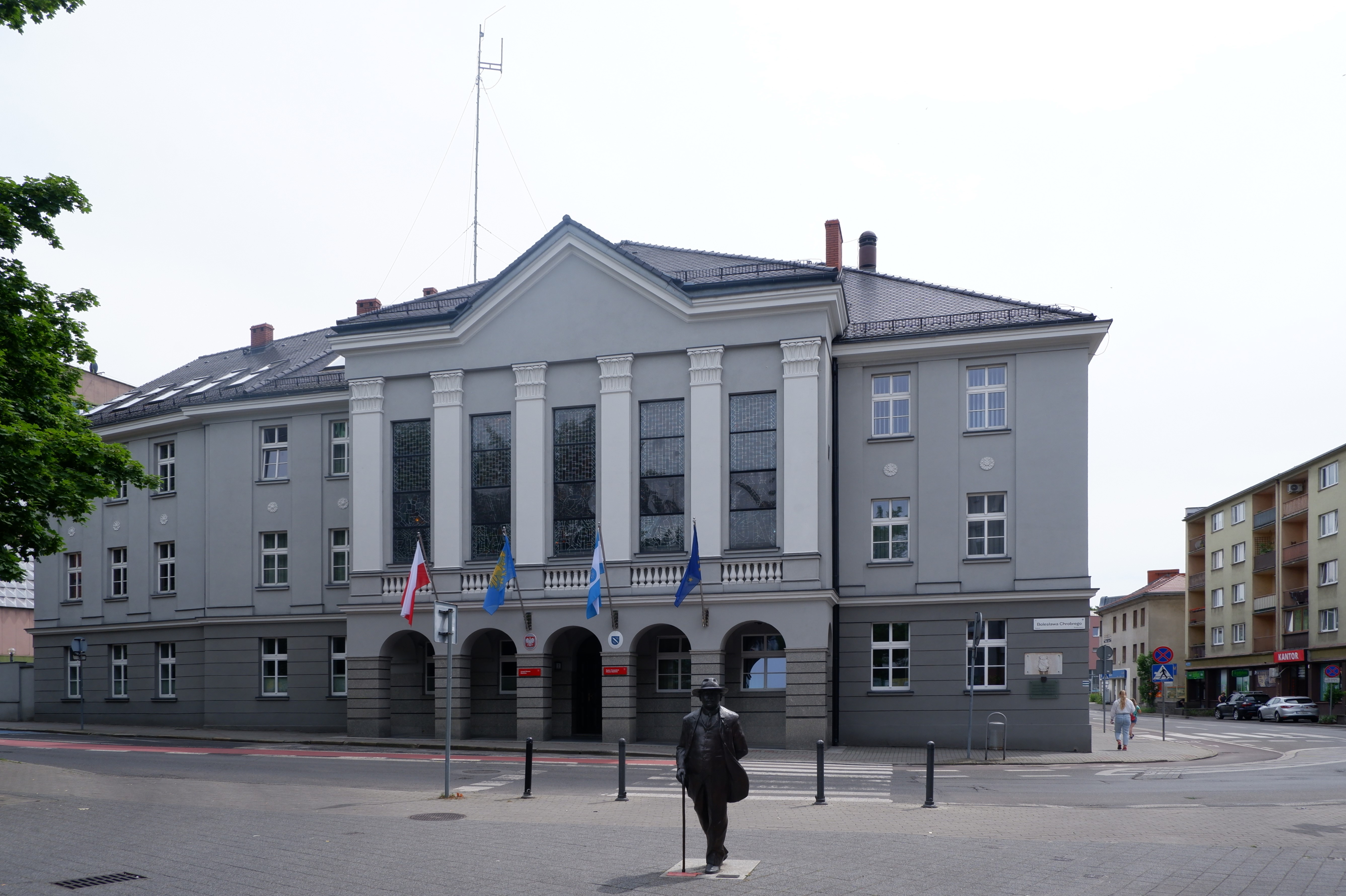 City hall in Rybnik, Upper Silesia, Poland, and the monument of former mayor Władysław Weber (1921–1939 and 1945–1950)